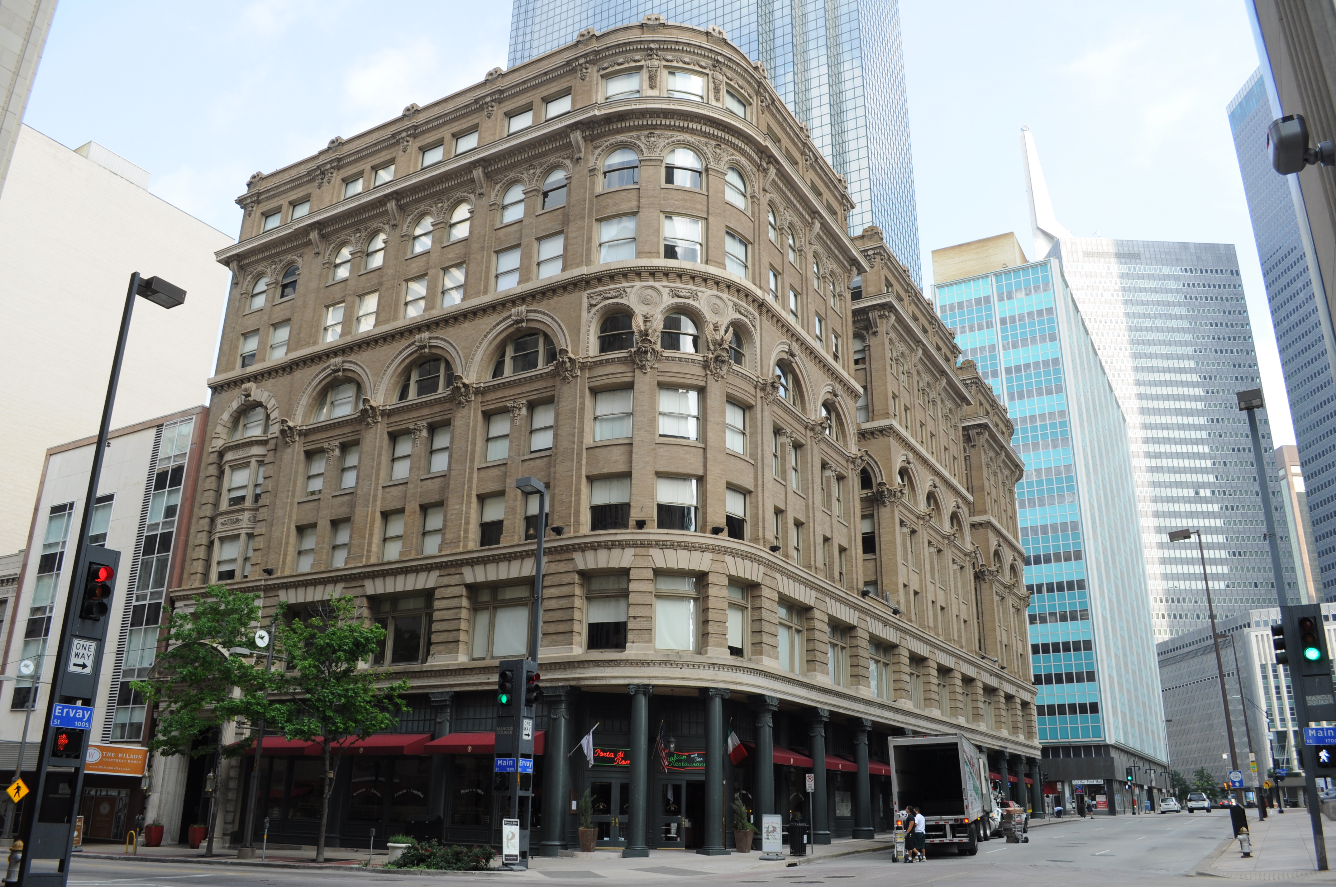 Wilson Building, Dallas, Texas, United States.